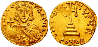 Leo III the Isaurian. 717-741 AD. AV Solidus (4.37 gm). Constantinople mint. Sole Reign, 717-720 AD. Crowned facing bust, holding globus cruciger and akakia; legend ends MUL A Cross potent on steps; H/CONOB. DOC III 1e; SB 1502. EF, graffiti on reverse.